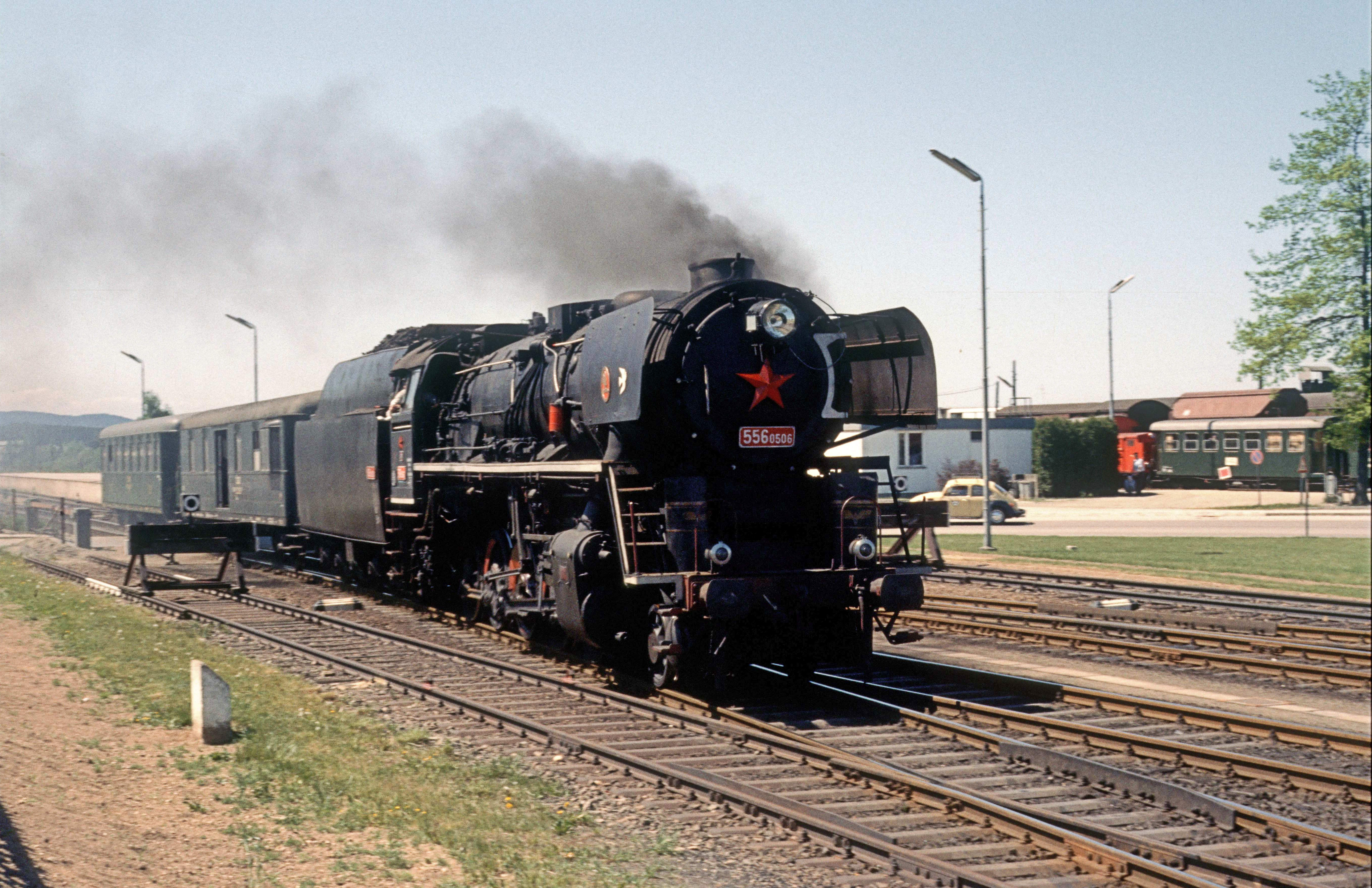 ČSD 556 0506 entering Gmünd station with short passenger train.